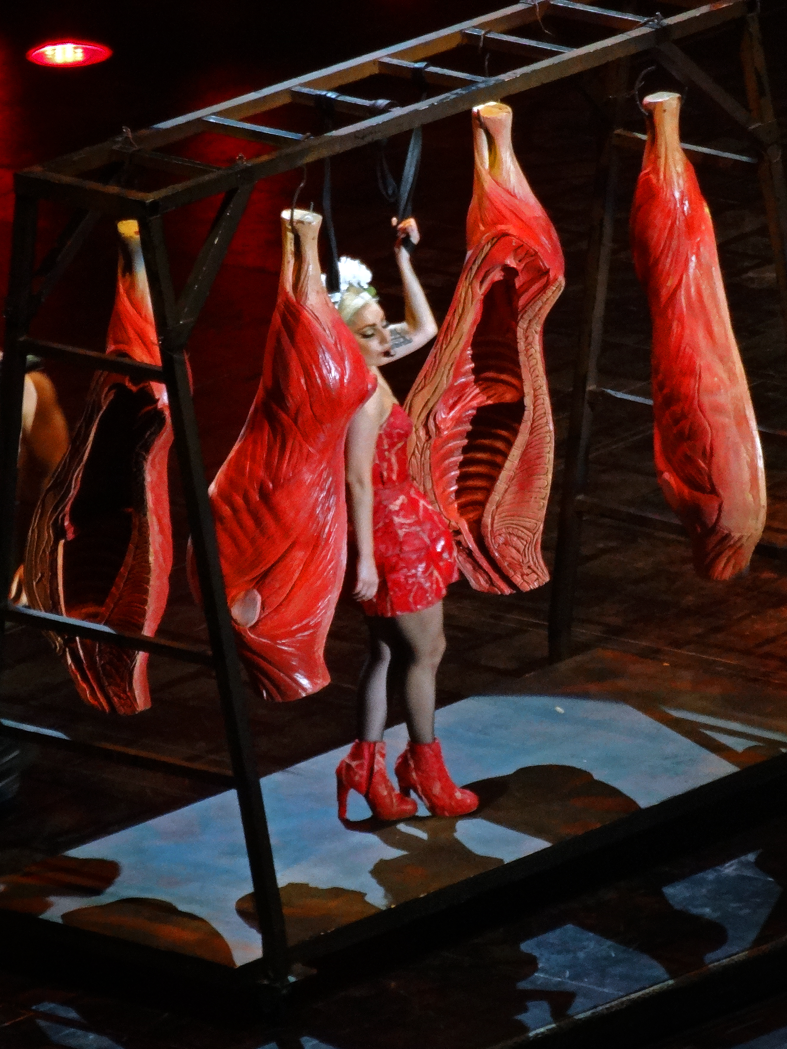 Lady Gaga performing "Americano" on The Born This Way Ball Tour.